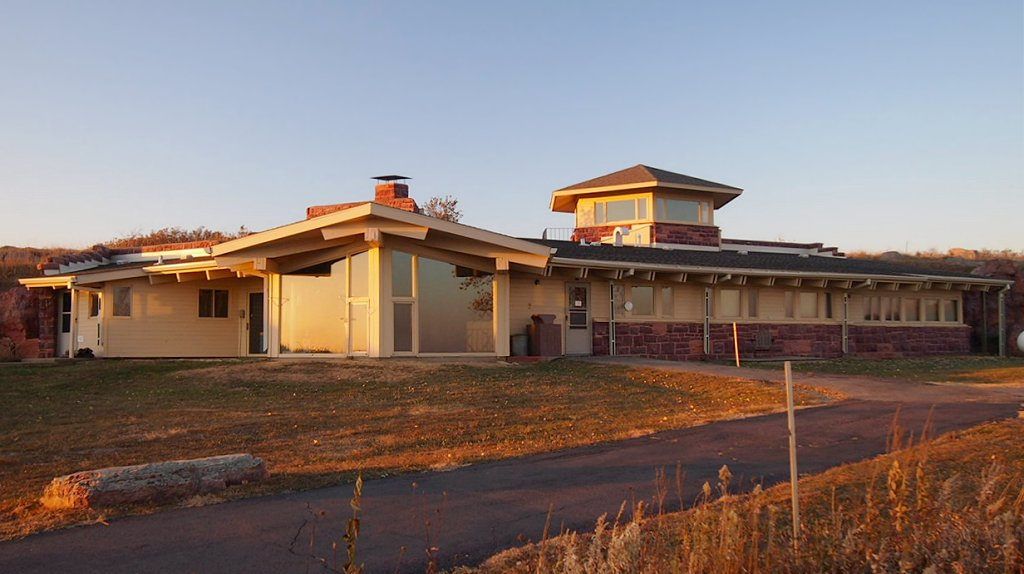 Home of author Frederick Manfred, now the Blue Mounds State Park interpretive center, Luverne, Minnesota, USA